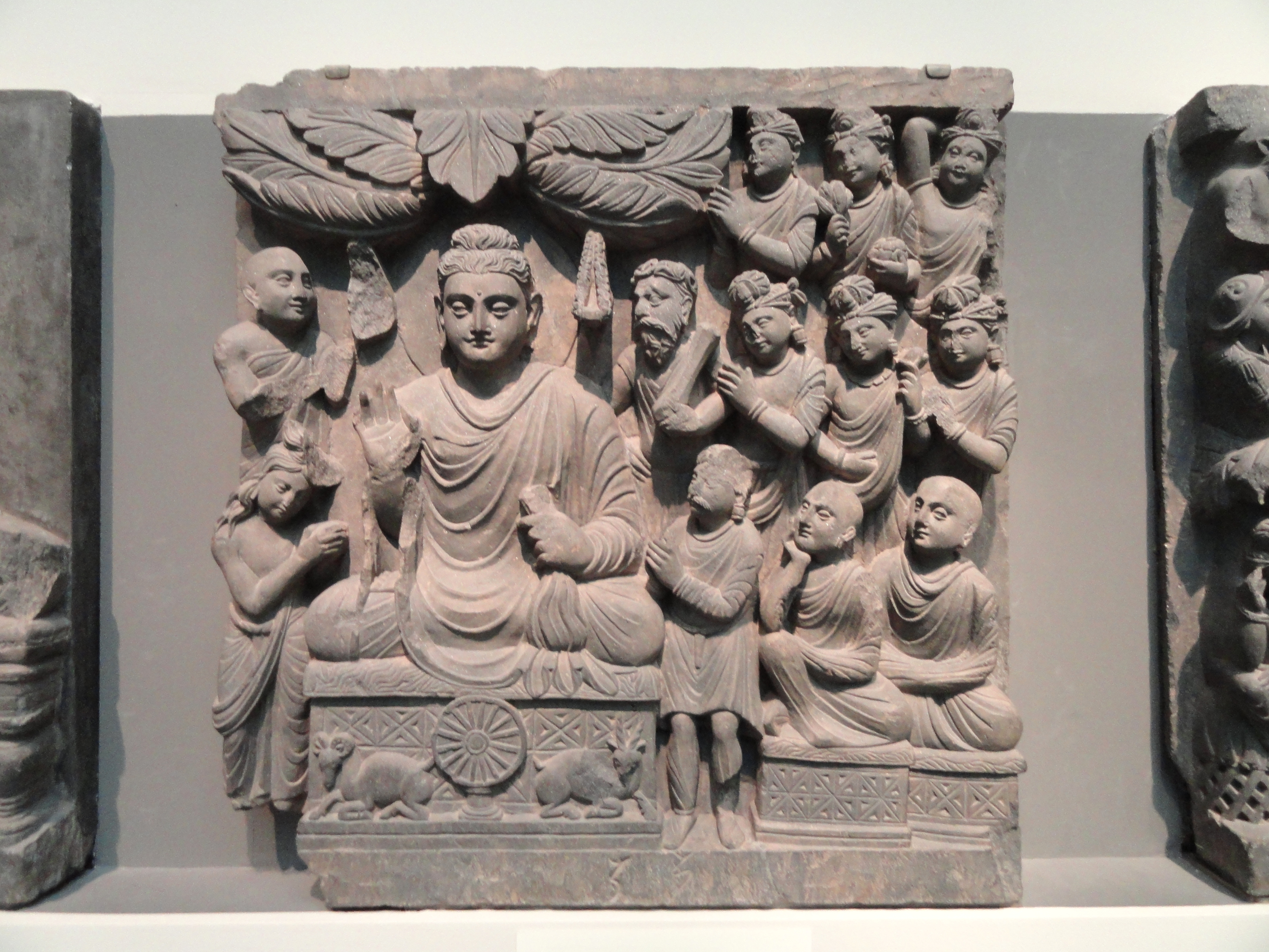 Exhibit in the Freer Gallery of Art, Washington, DC, USA. This artwork is old enough so that it is in the public domain.